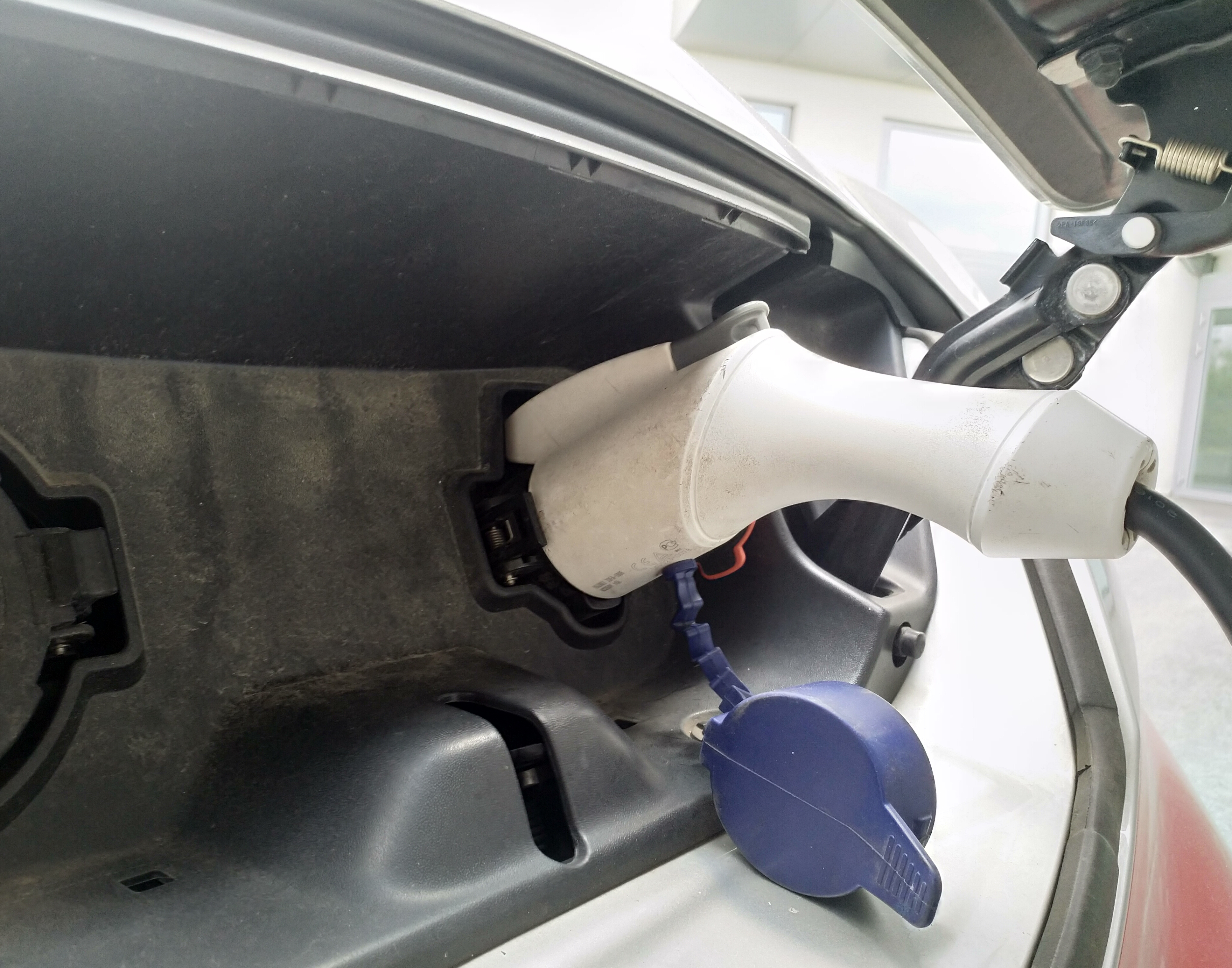 A Nissan e-NV200 beeing charged with a Type 1 charging connector